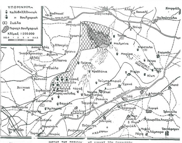 Stronghold points of greek andarts and IMARO in Enidzhevardar (Pazar) lake or Gioannitson swamp